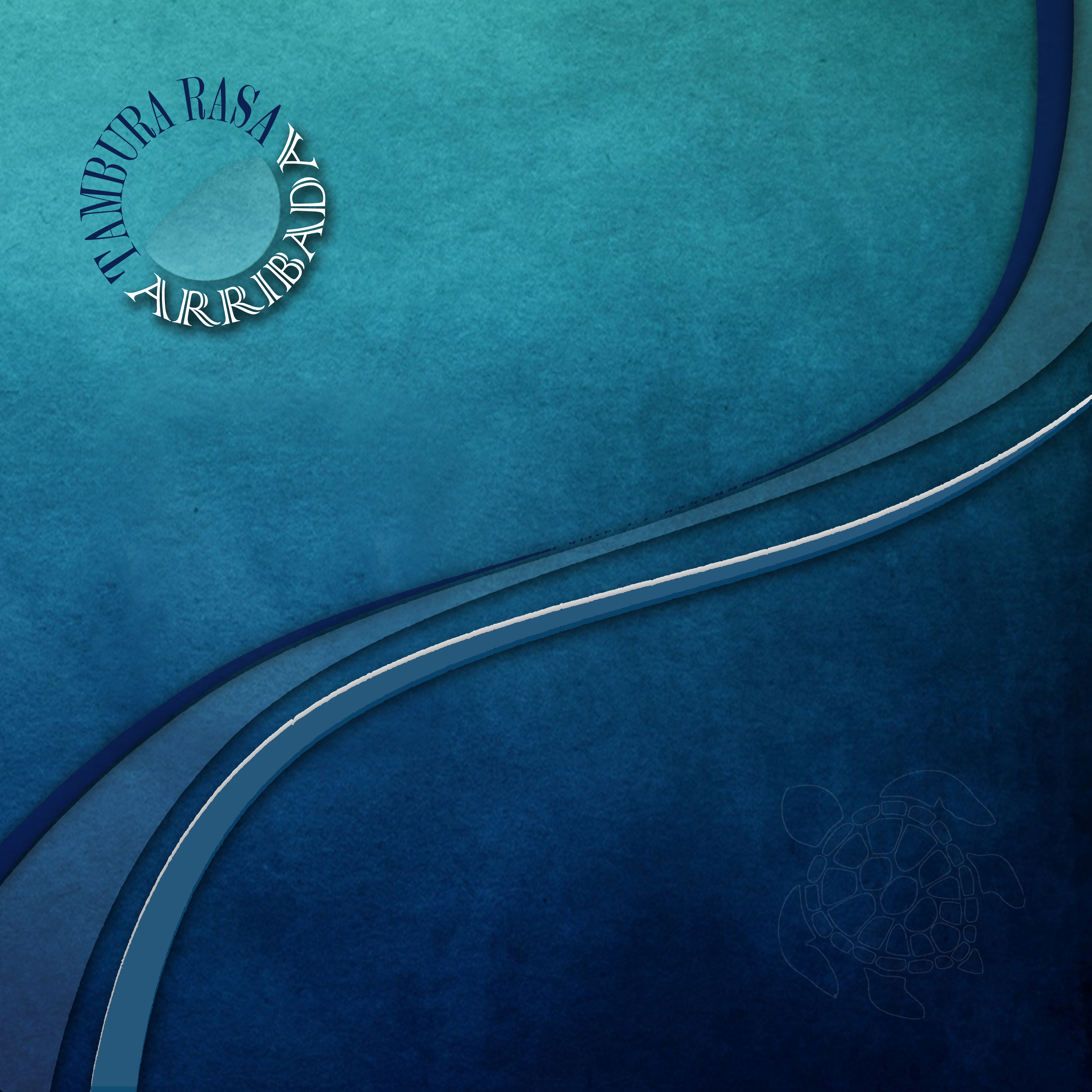 Ivan Tucakov and Tambura Rasa - Arribada - 2014 Album Cover